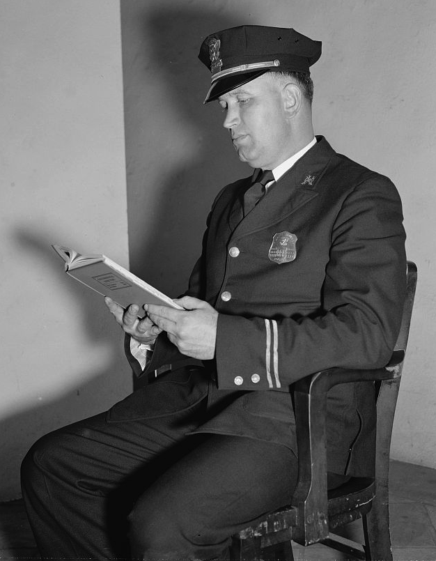 Ira Lee Law, an arm of the law at the White House, that is a member of the White House police force, was sworn in yesterday as an attorney at law. Ordinarily one of the more modest members of the force. he has worn the uniform for more than 10 years. Laws, never studied at any law school and passed the Bar on his first attempt. Every spare moment from his duties at the executive mansion was spent in the law offices of his friend Carey Quinn. He had studied there four years when he took the examination last June